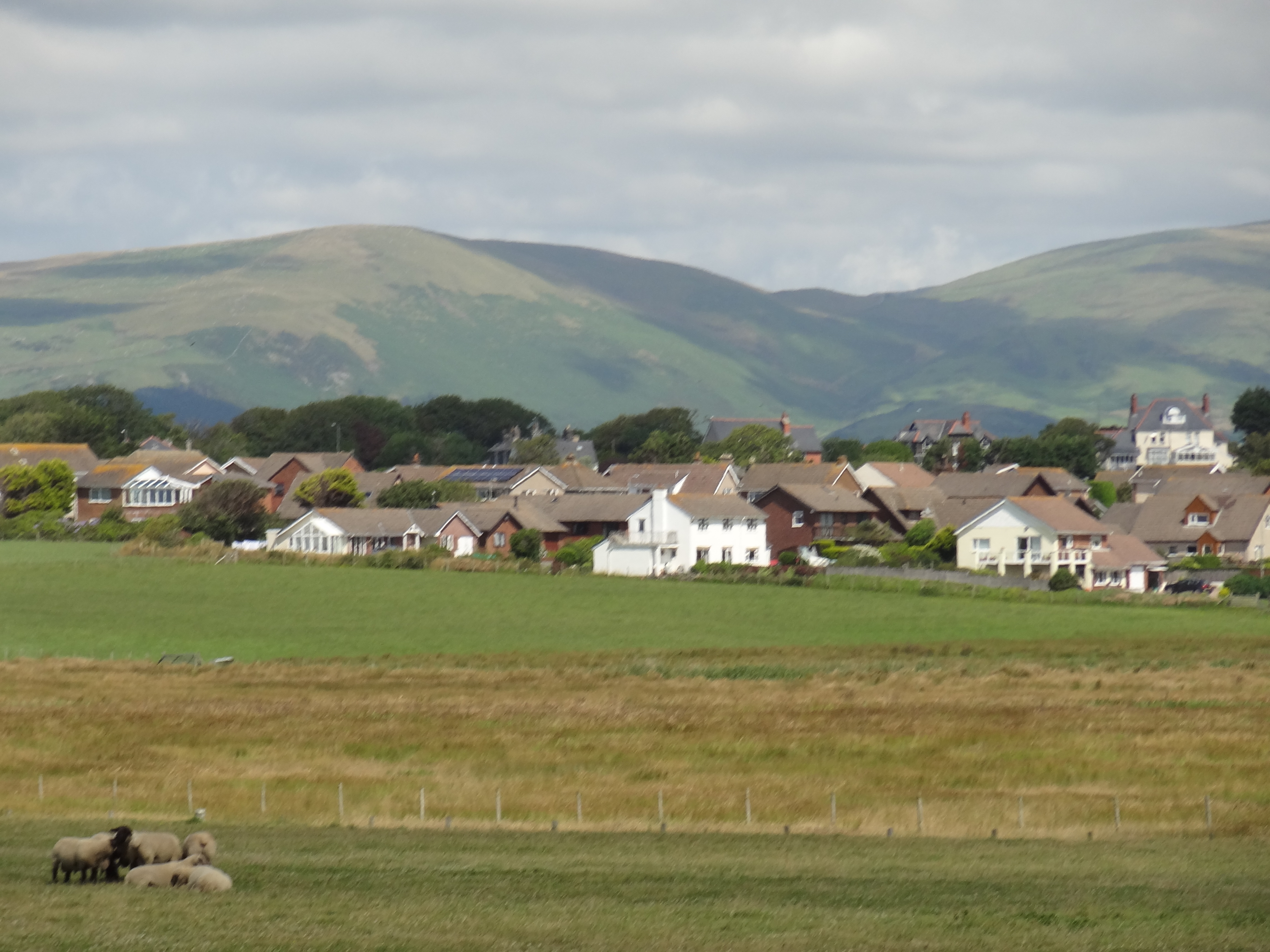 Site of Llyn(lake) y Borth, Tywyn, after draining 1862-4